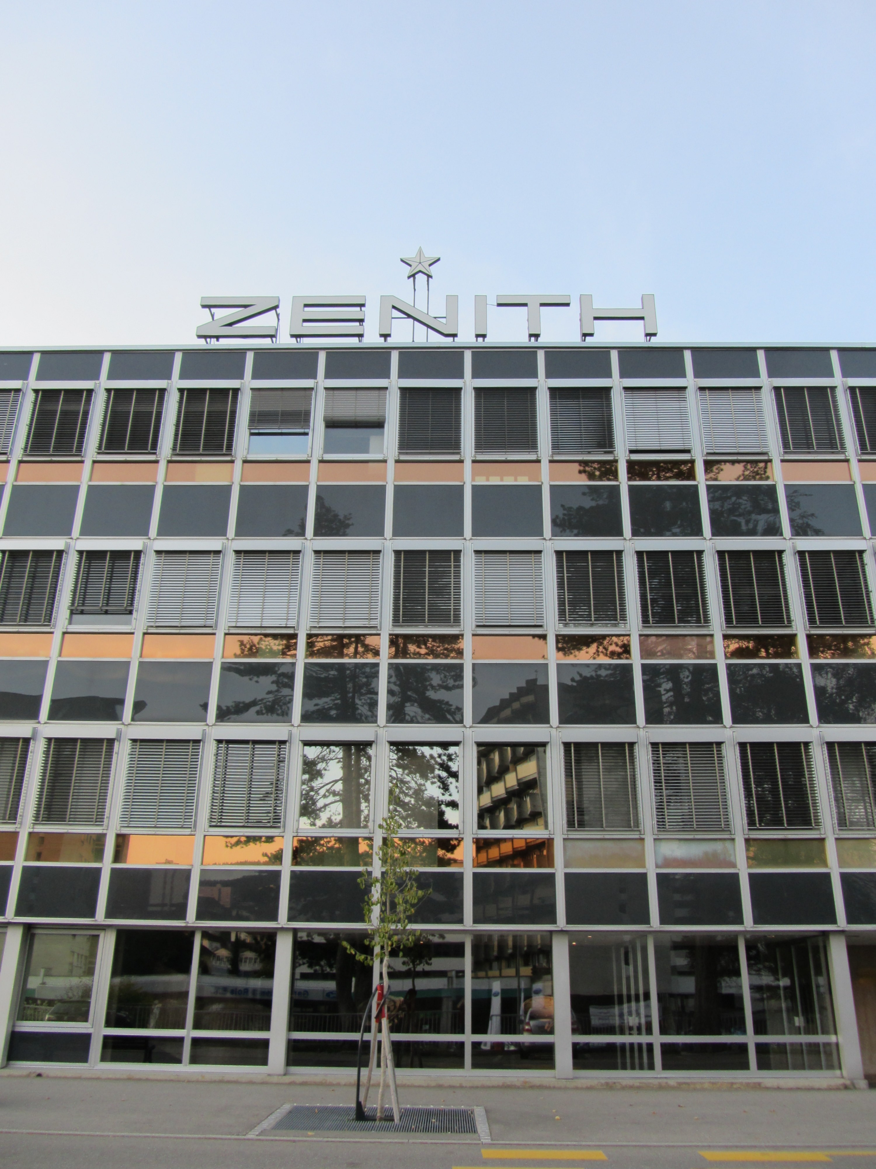 Switzerland, Le Locle. Zenith watchmaking factory